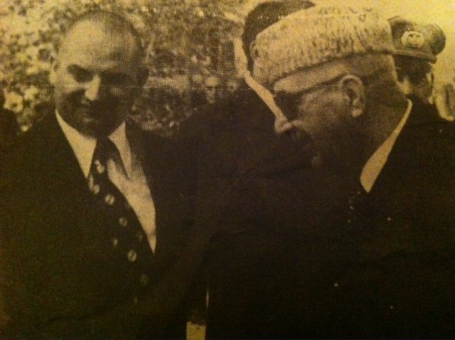 Abdul Qadeer Nuristani's photo with President